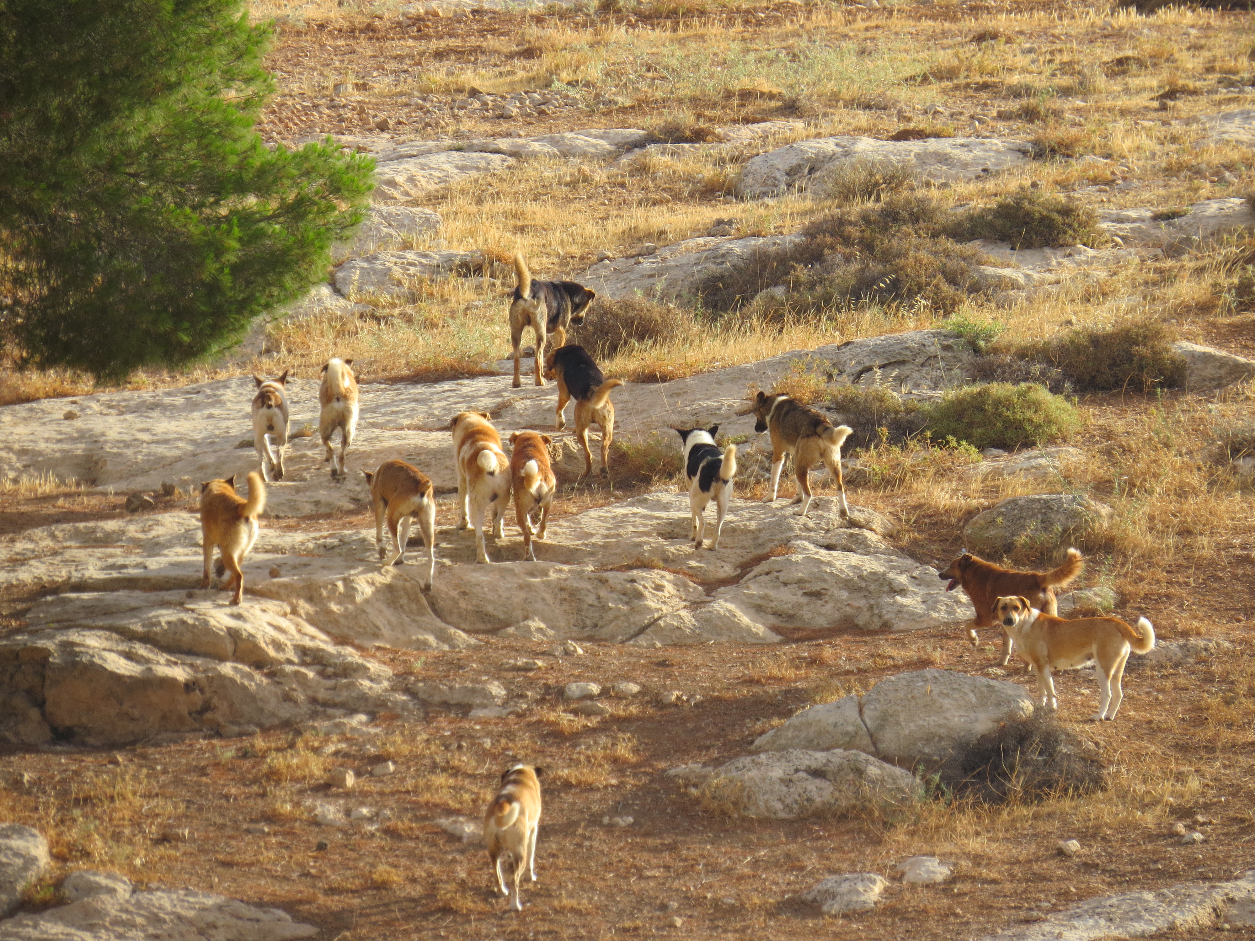 Feral dogs in palestine